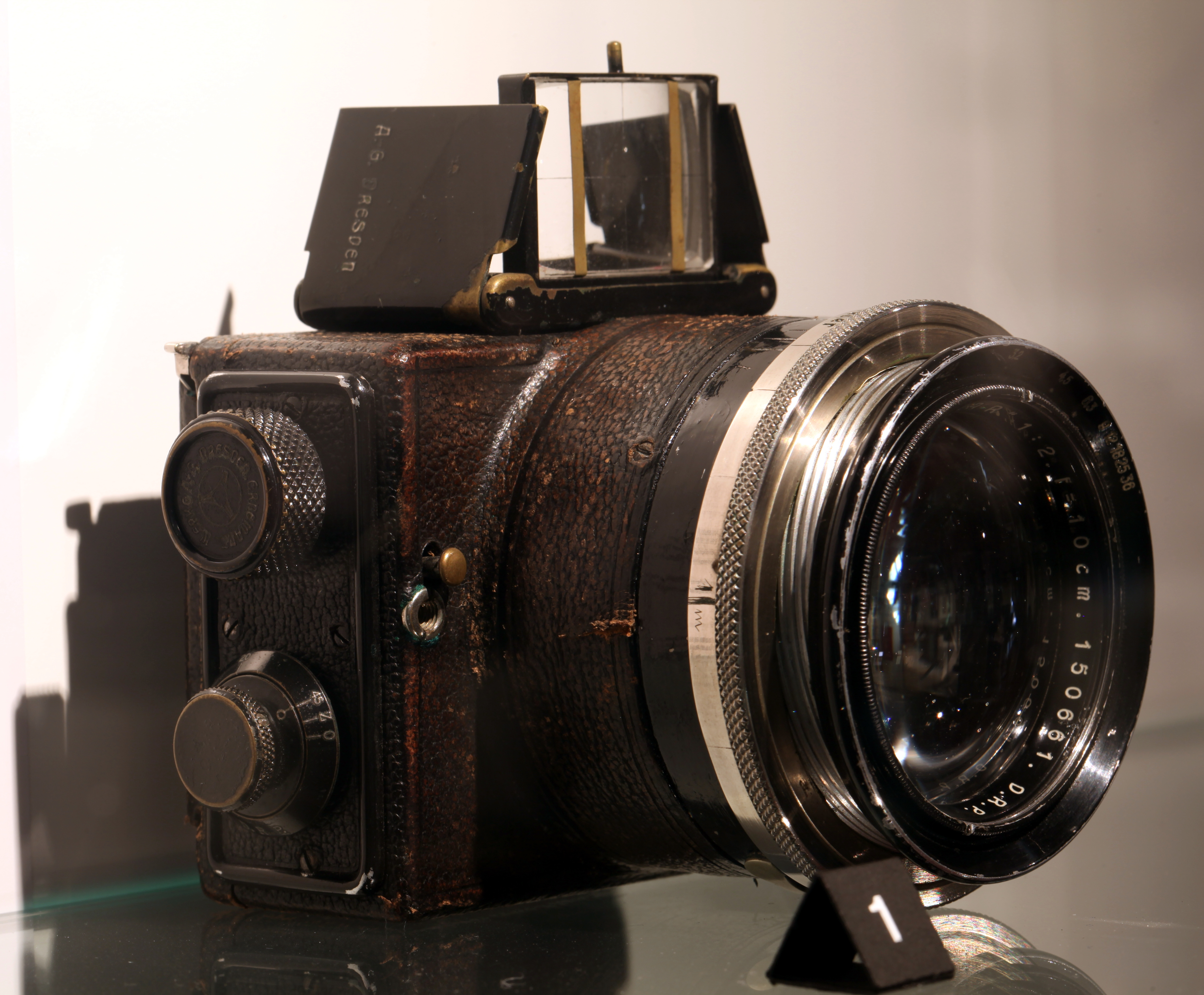 Ermanox